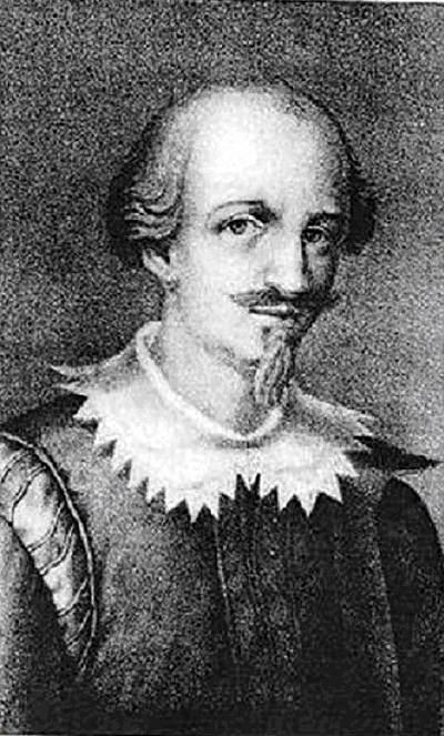 Head and shoulders of the subject apparently from an eighteenth century or earlier ilustation